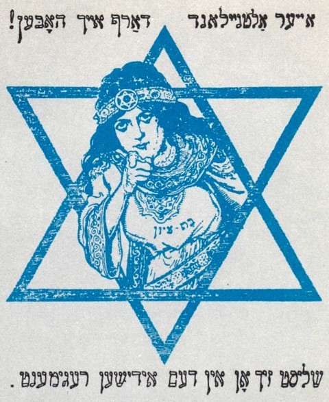 Yiddish-language recruitment poster for the Jewish Legion published in American Jewish magazines during World War I. Daughter of Zion (Bat Zion), representing both Jerusalem and the Jewish people: אײער אַלטנײלאנד דאַרף אײך האָבּען! שליסט זיך אָן אין דעם אידישען רעגימענט. (Your Old New Land must have you! Join the Jewish regiment.)